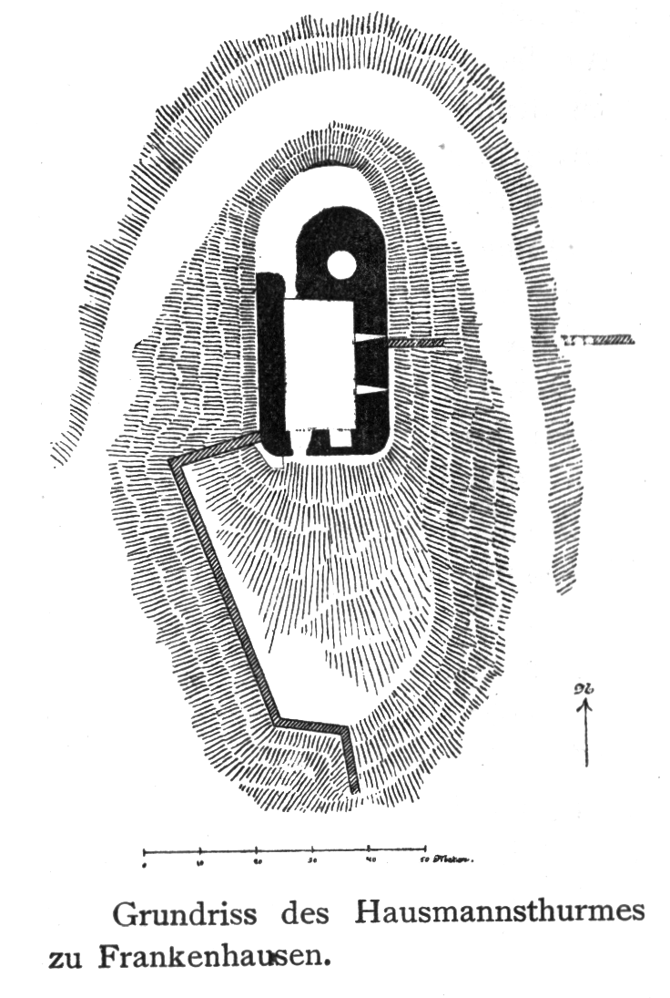 A map of the Hausmannsthurm, a castle in Frankenhausen.